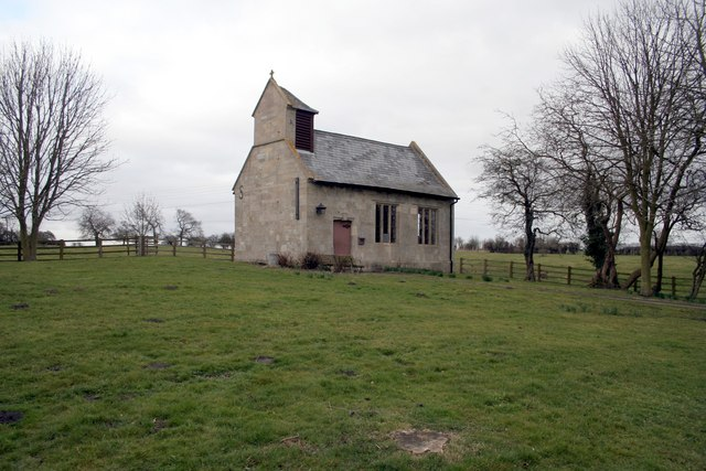 Chapel of ease at Great Humby, Lincolnshire, seen from the southwest